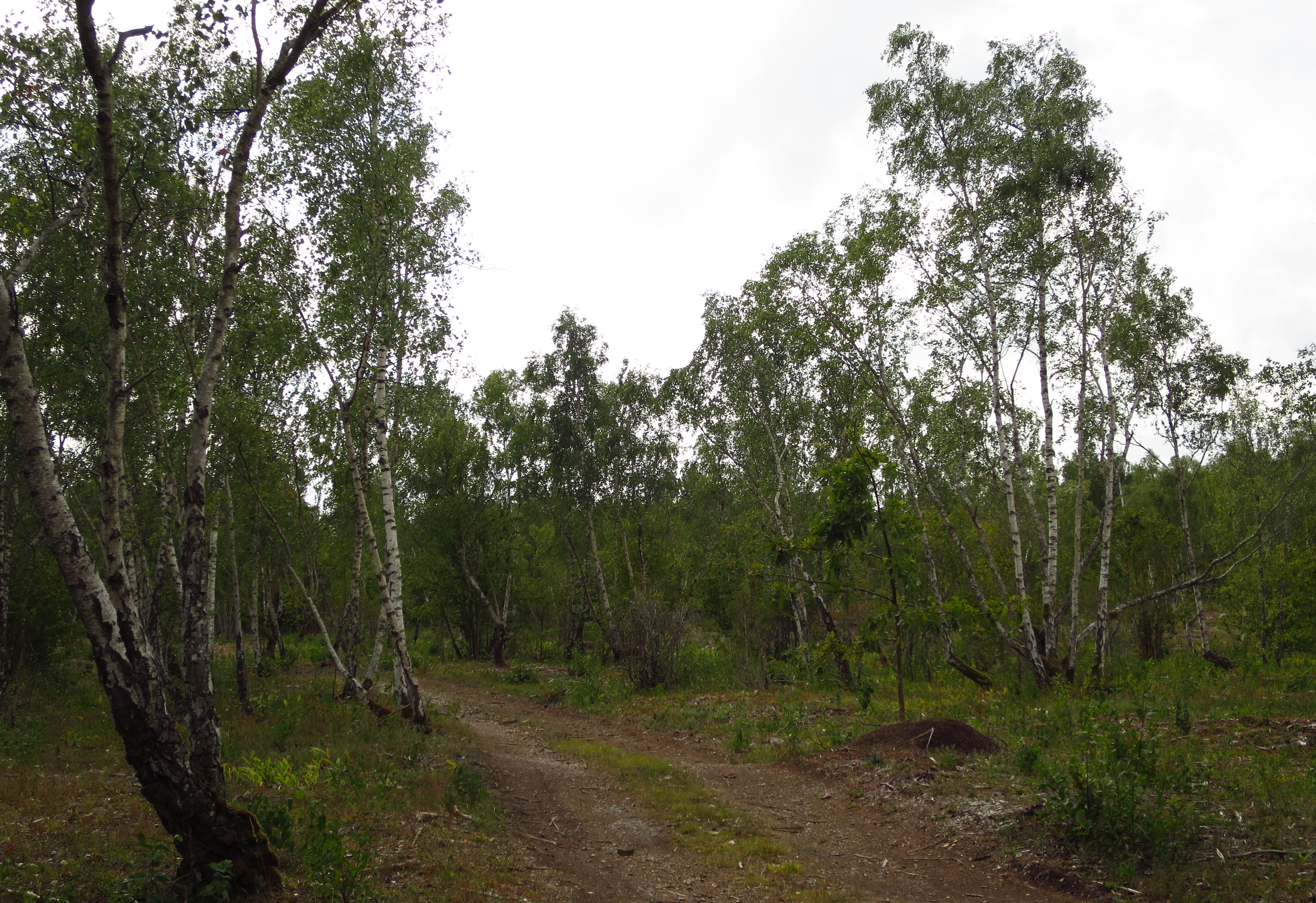 Lookaasik Sarve poolsaarel Sarve maastikukaitsealal